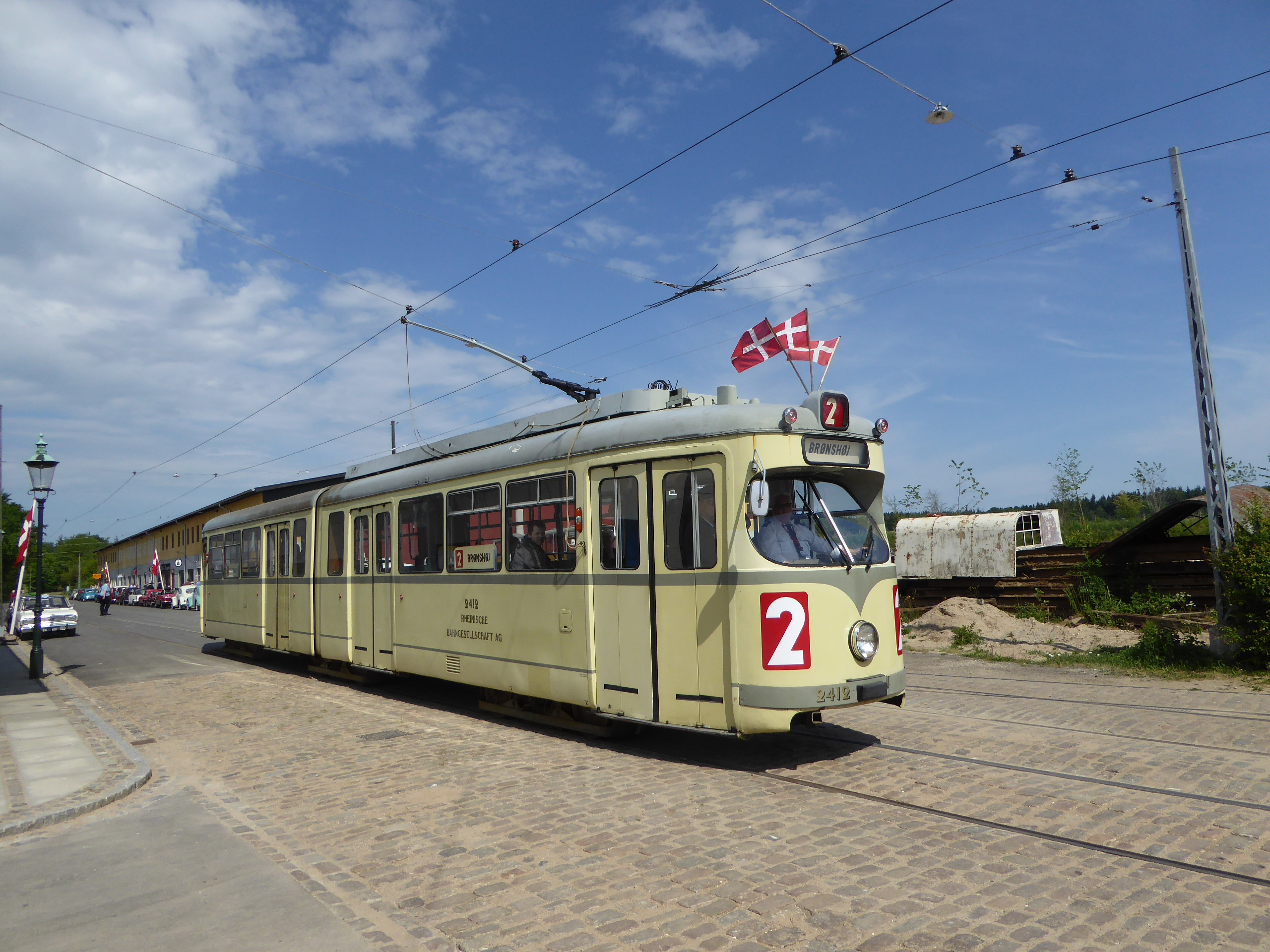 40 years anniversary of the tramway museum Sporvejsmuseet Skjoldenæsholm in Denmark. Old tram from Düsseldorf, RBG 2412 from 1957.